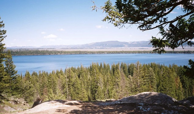 Jenny Lake is a glacial lake located in Grand Teton National Park